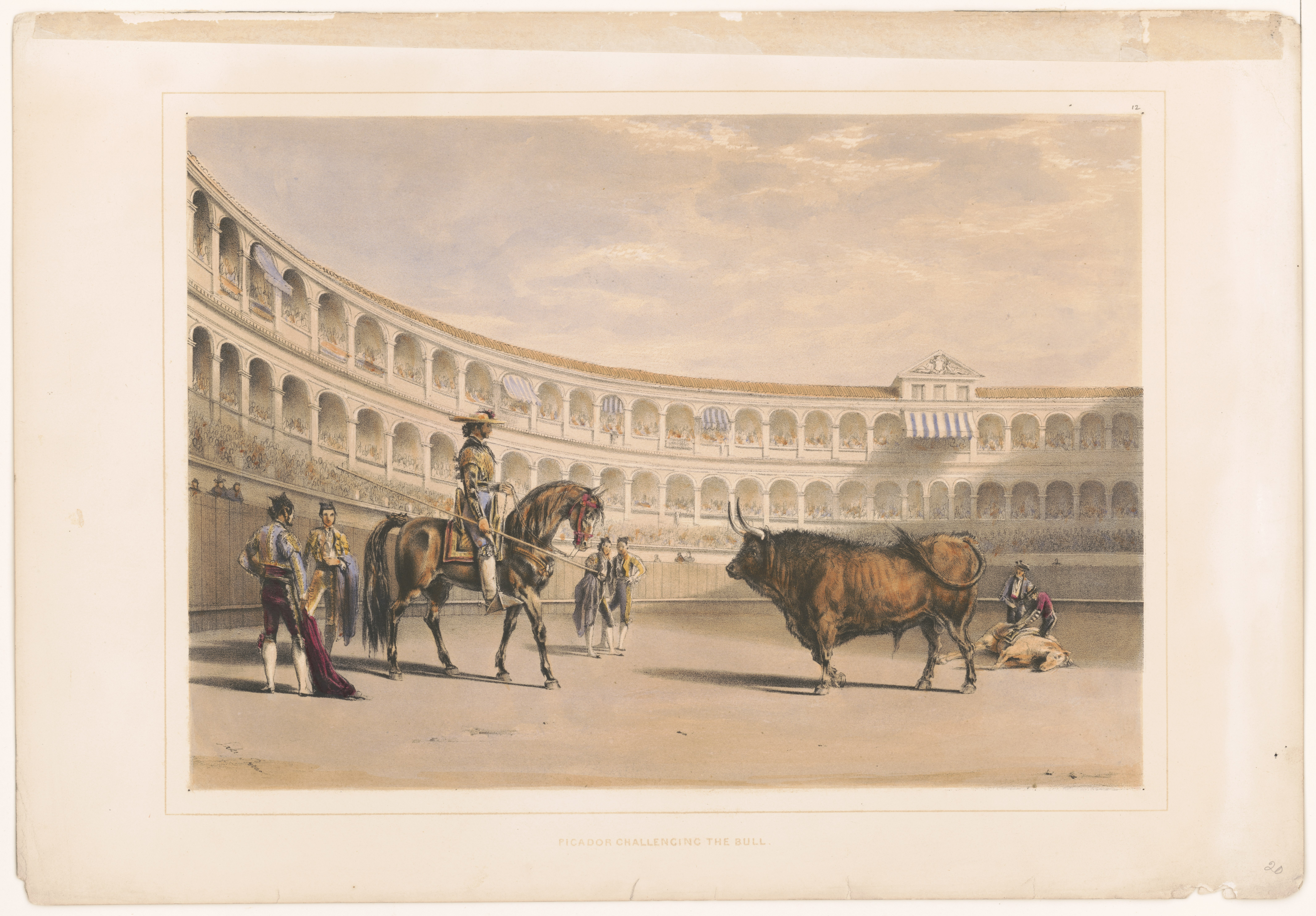 Title: Picador challenging the bull Physical description: 1 print. Notes: Associated name on shelflist card: Price, Lake.; This record contains unverified data from PGA shelflist card.